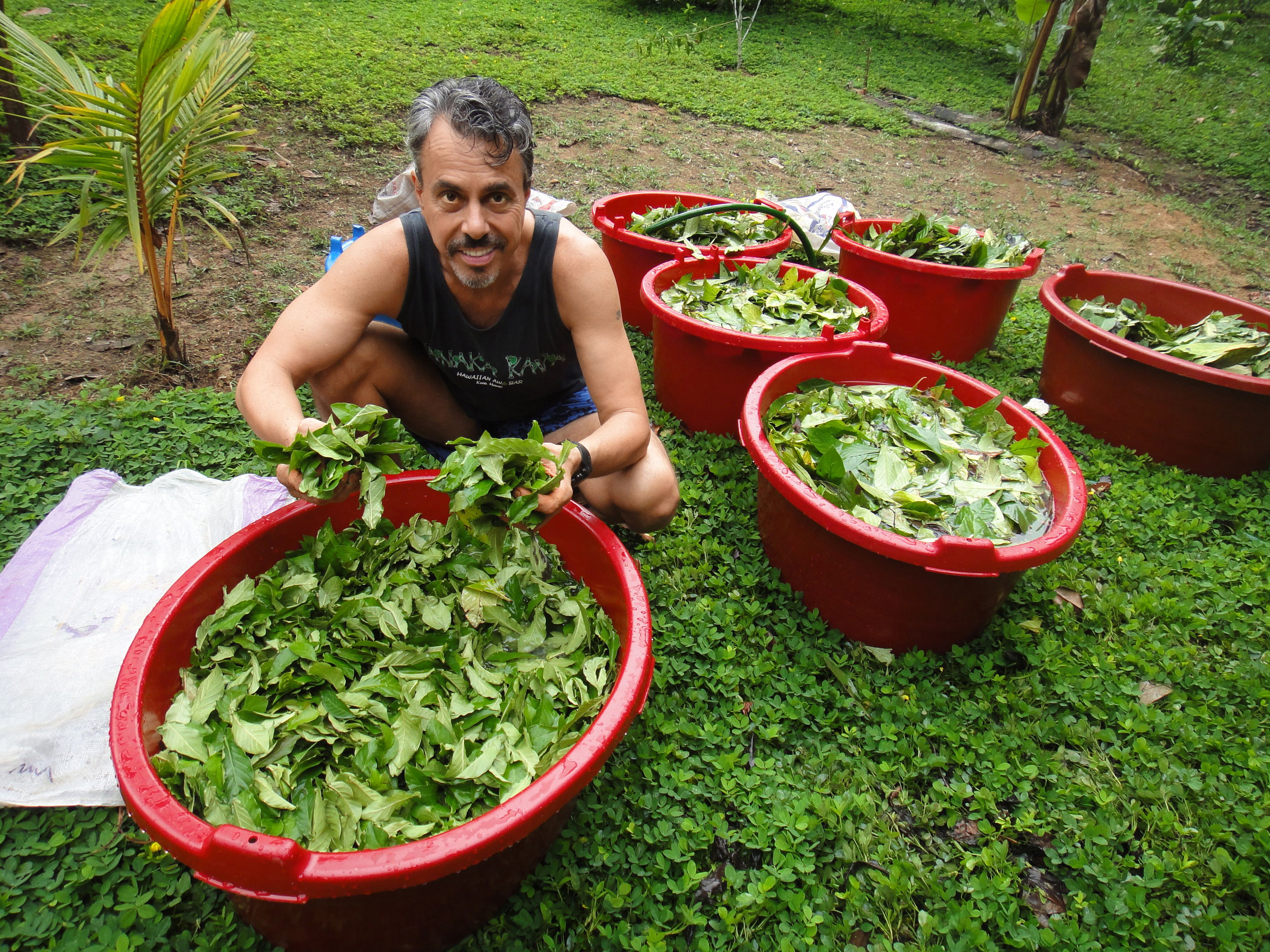 Ethnobotanist and Medicine Hunter Chris Kilham with Chakruna (Psychotria viridis) leaves, at Blue Morpho, in the Peruvian Amazon. Chakruna is one of two essential plants for making ayahuasca, a body, mind and spirit medicine from the Amazon. The photo is taken by his wife and partner, Zoe Helene.